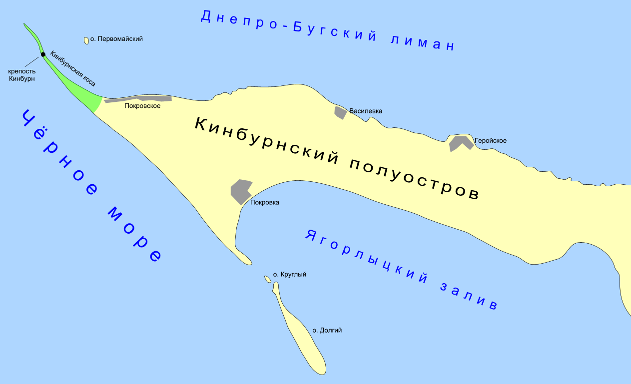 Map of Kinburn peninsula